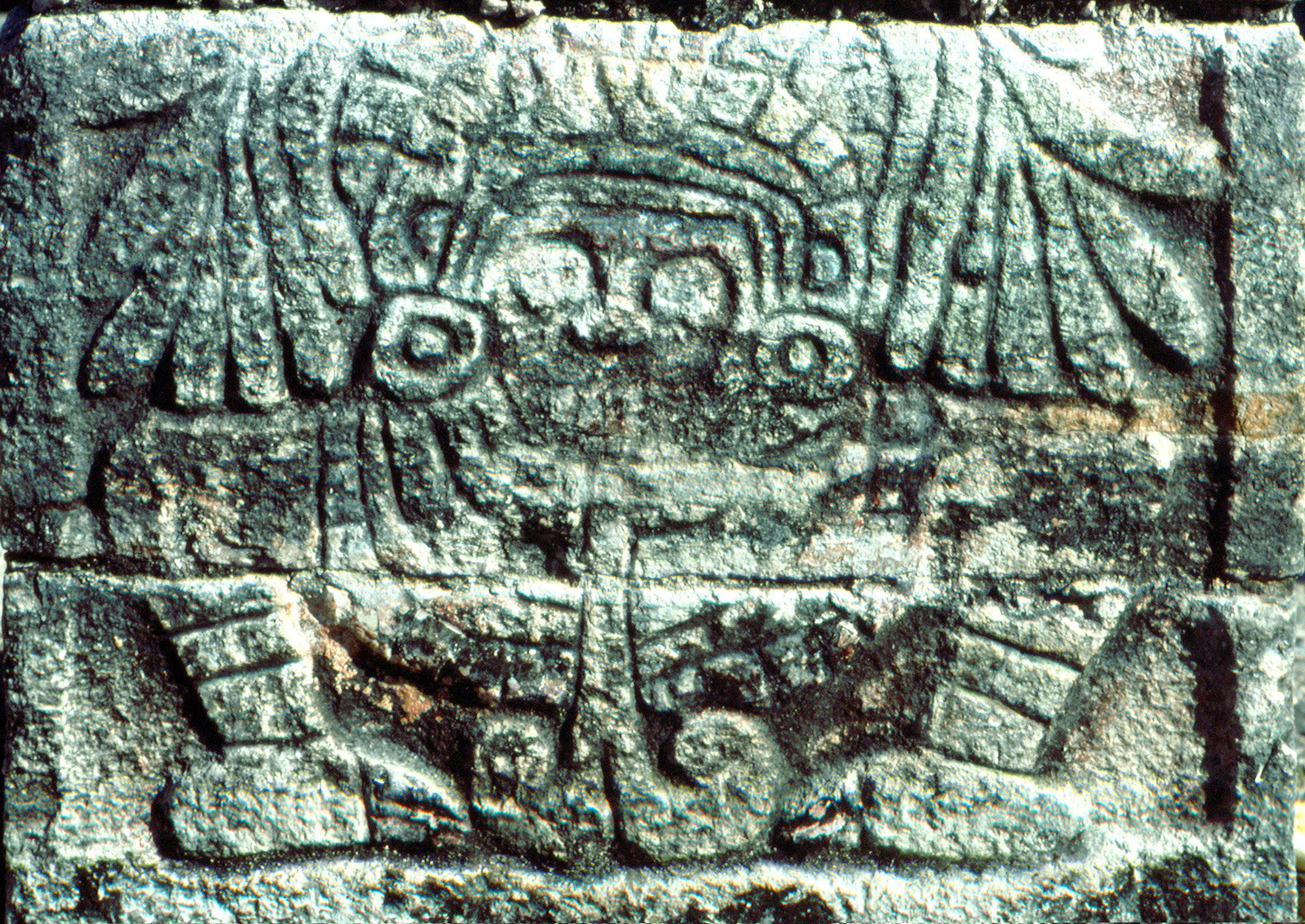 Chichén Itzá, Yucatan, Mexico: birdman relieve pillar in Thousand Columns Complex